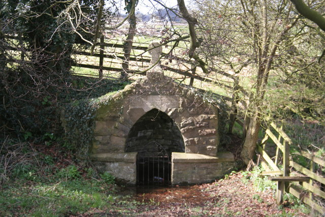 Holy well at Ashwell.